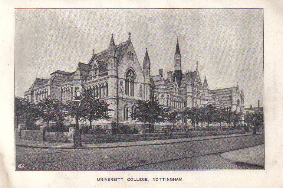 University College Nottingham from the Illustrated Guide to the Church Congress 1897